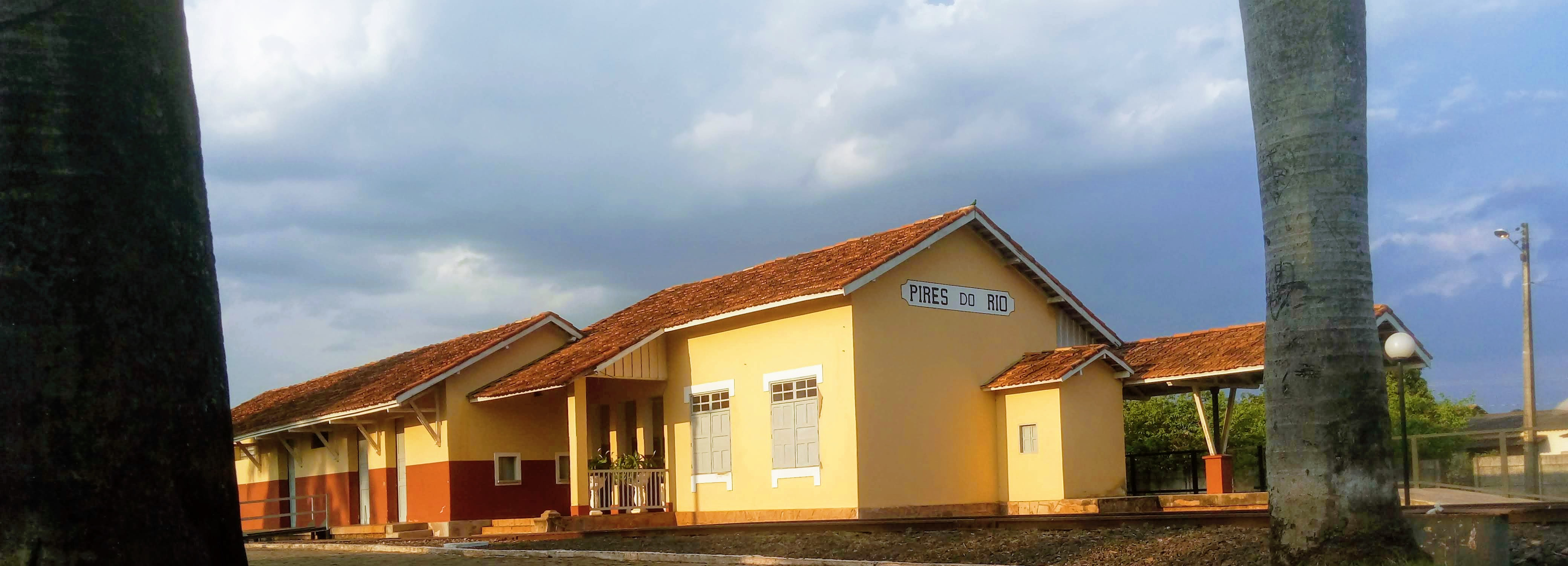 Pires do Rio's train Station. Inaugurated in 1922. Its name is a tribute to José Pires do Rio, Minister of Transports in the government of Epitácio Pessoa. Cultural propertyQ67171747, Pires do Rio, Goiás, Brazil Q67171747, P727